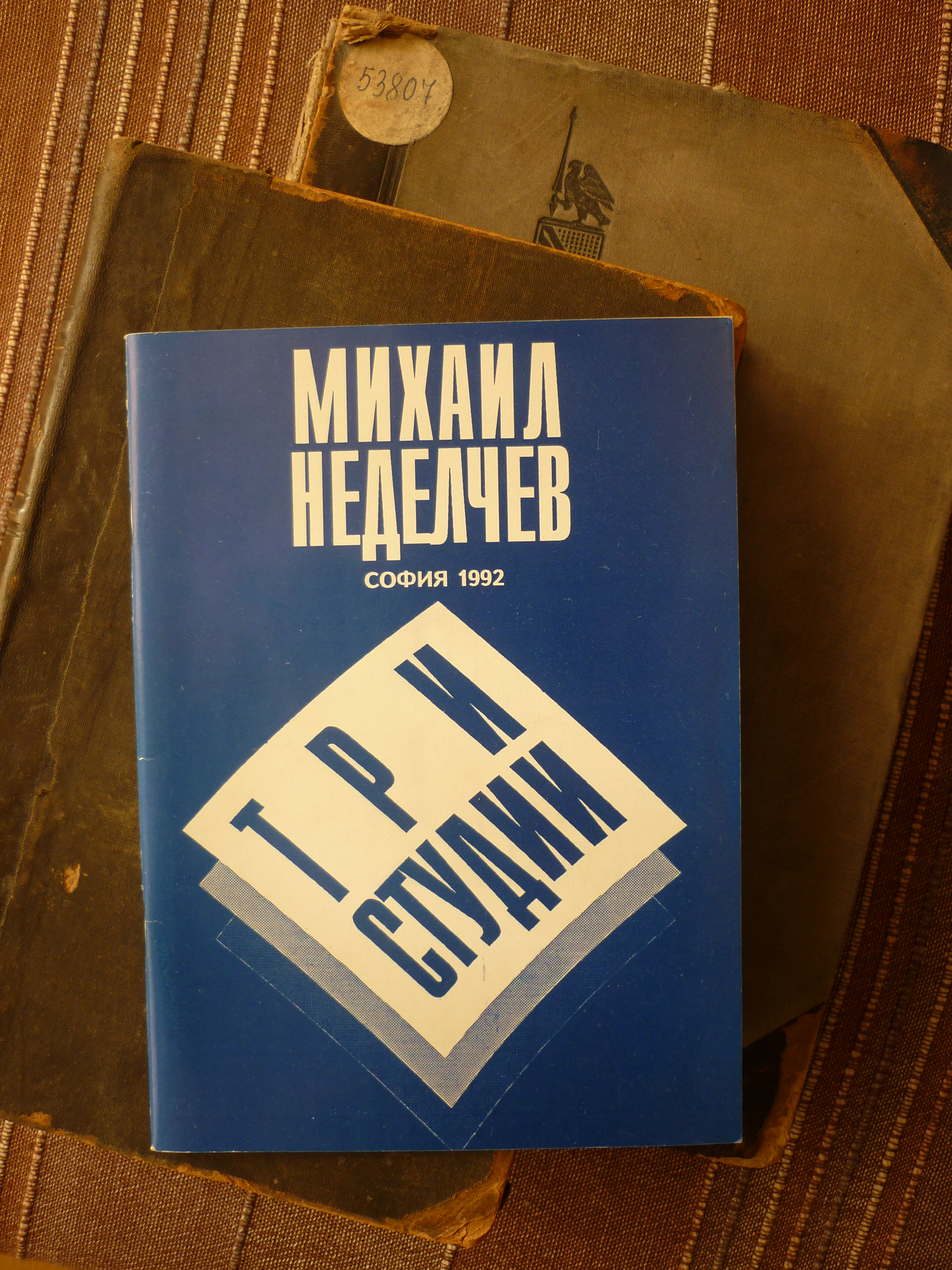 „Three case studies“, cover of the first Bulgarian edition, 1992